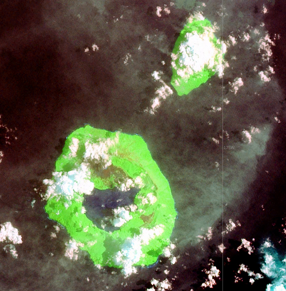 Tofua Island and Kao Island, Tonga, Pacific Ocean